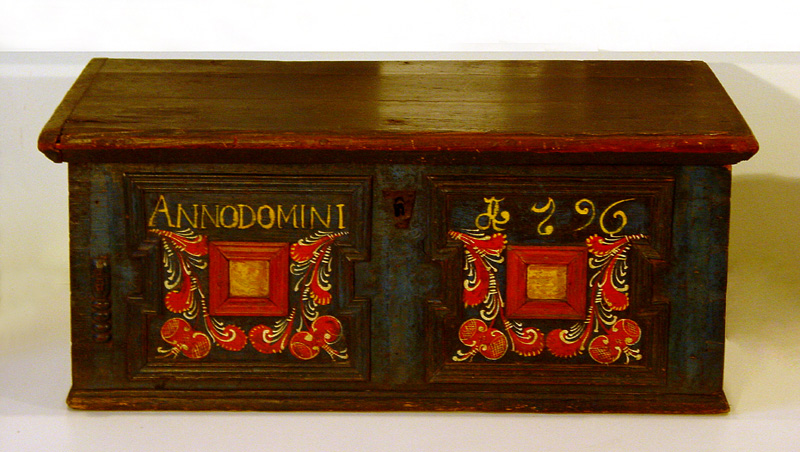 Dowry chest, Bački Breg (Vojvodina, Serbia), Šokci people (1796). Srpski (latinica): Devojački sanduk, Bački Breg, Šokci (1796).